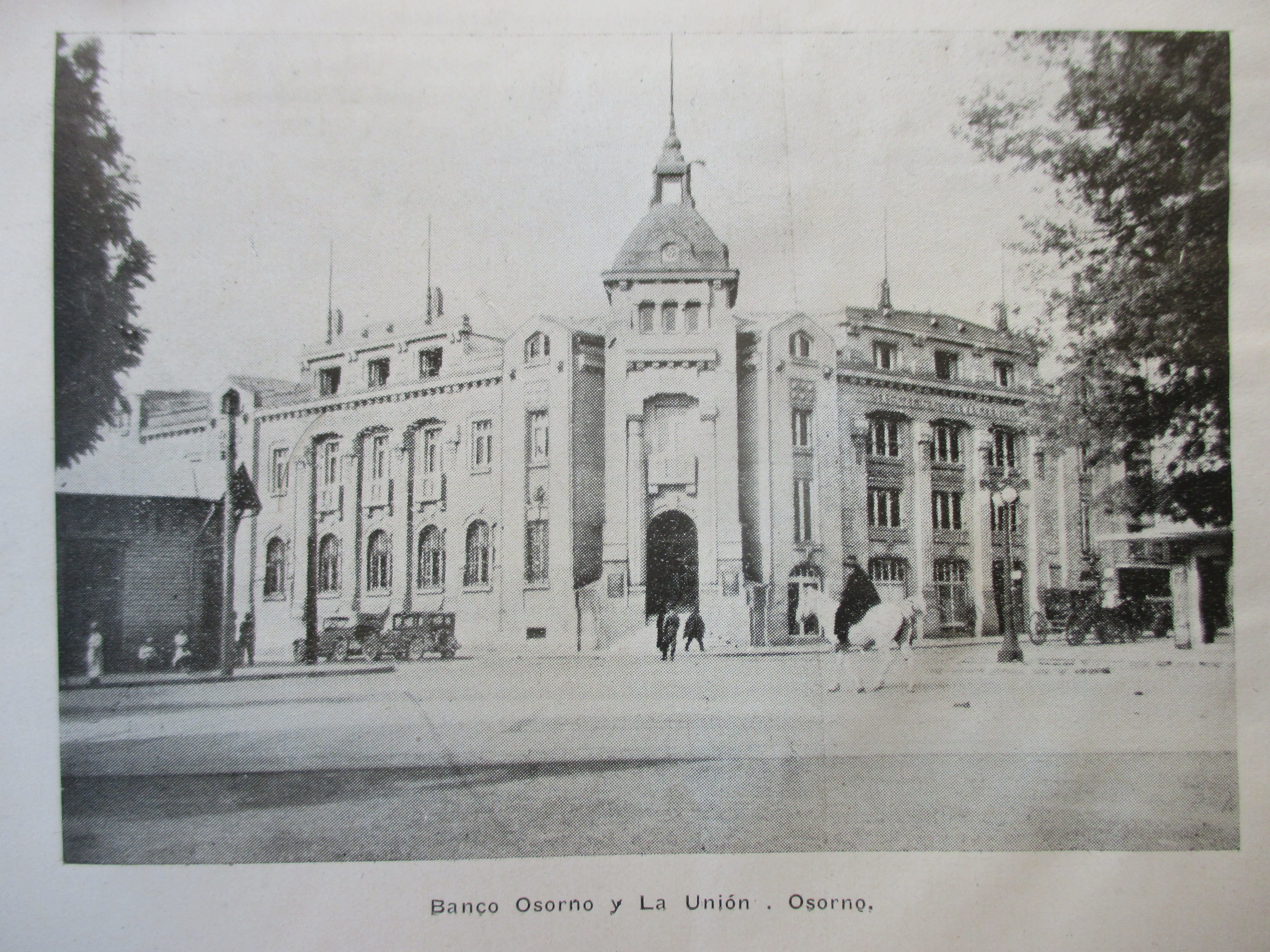 Photography of Bank of Osorno and La Unión. Osorno, year 1937.